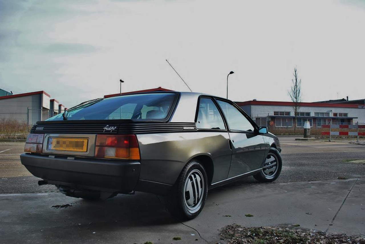 Renault Fuego GTX 1982 rear view